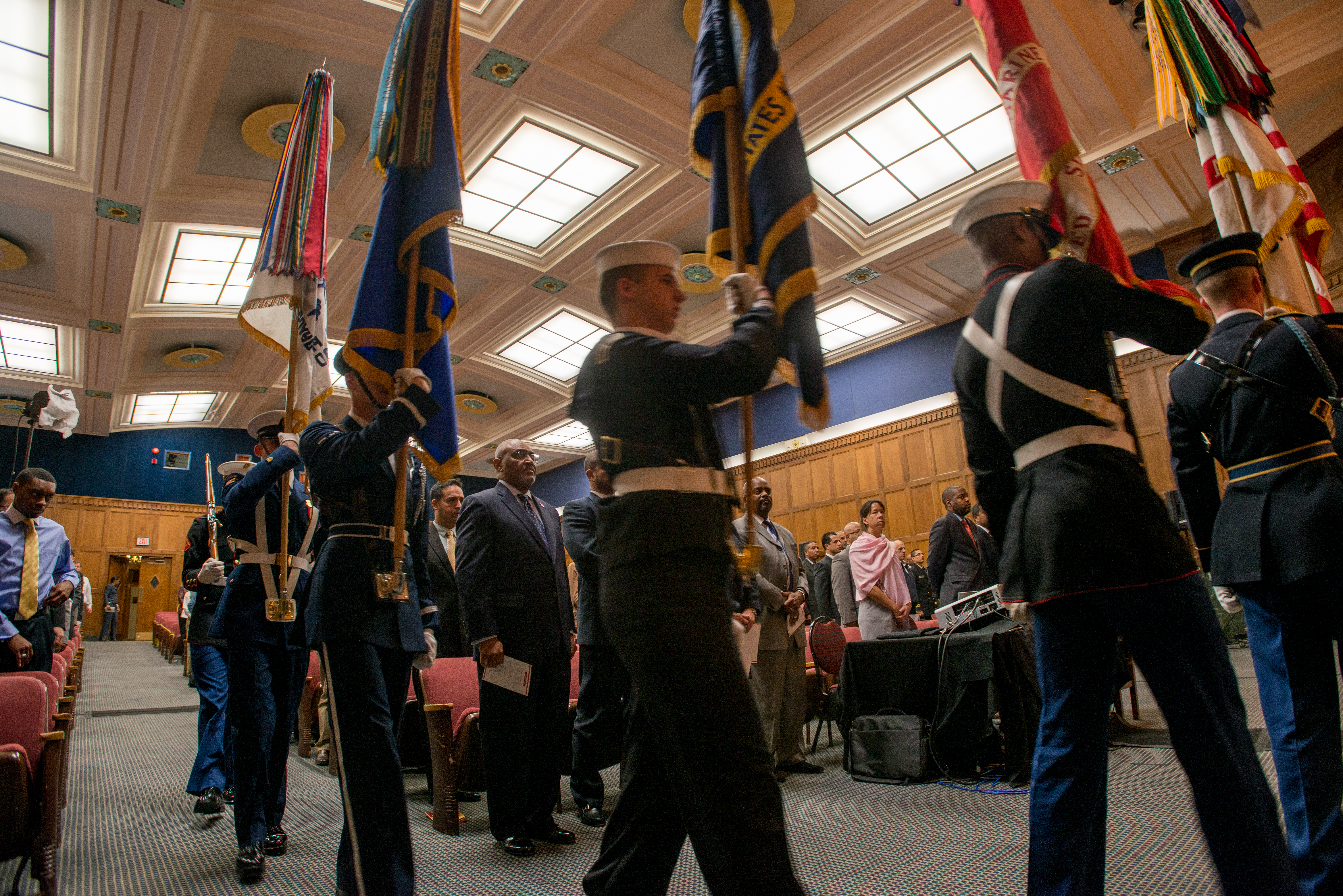 U.S. Department of Agriculture (USDA) Veterans Day Celebration – Honoring All Who Served, at the USDA headquarters’ Jefferson Auditorium, in Washington, D.C. on Tuesday, Nov. 4, 2014. The U.S. Military District of Washington Joint Armed Forces Color Guard Presents the Colors. USDA Photo by Lance Cheung.